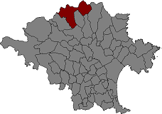 Location of la Jonquera in Alt Empordà